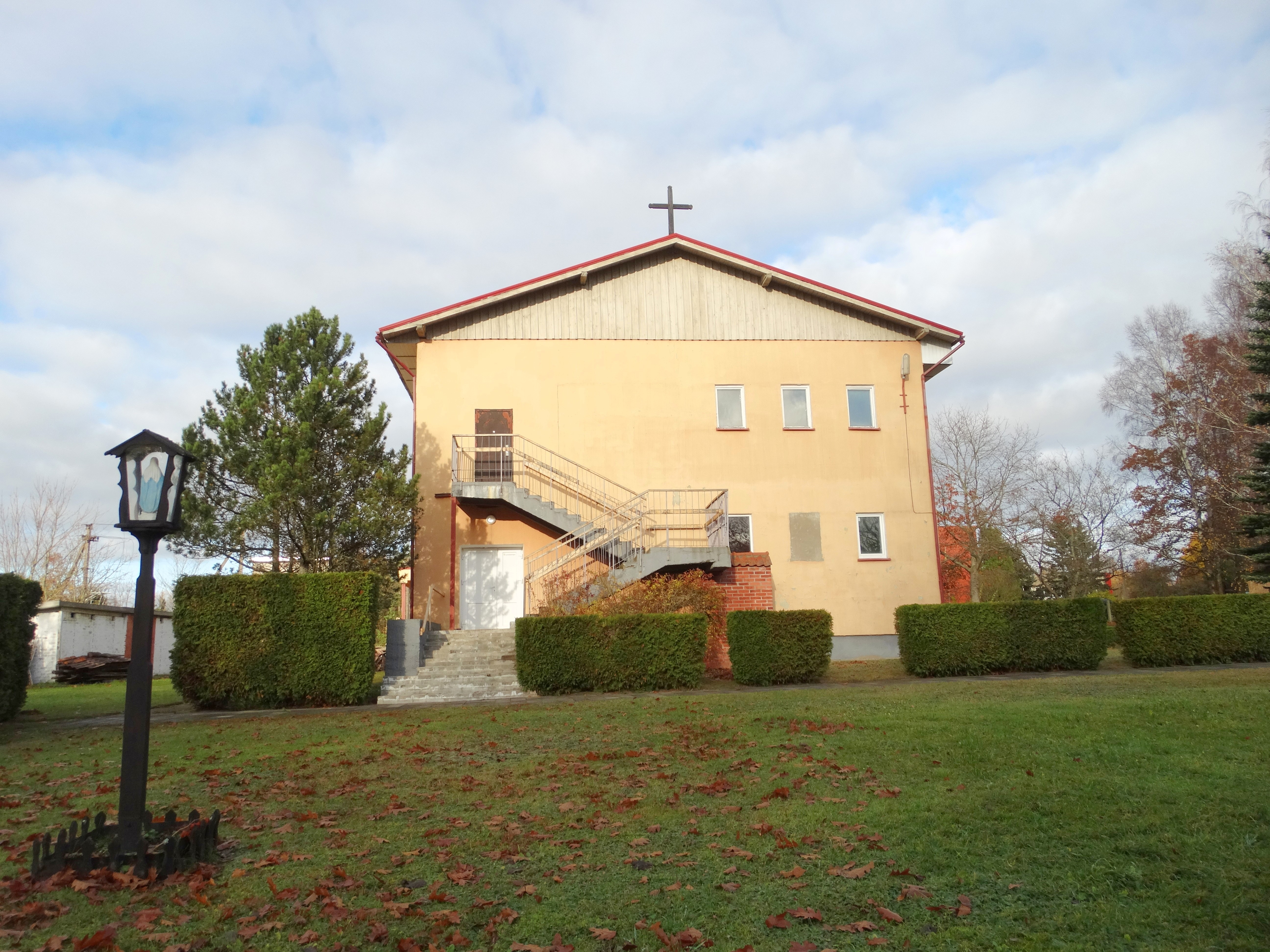 Catholic chapel, Katyčiai, Šilutė district, Lithuania